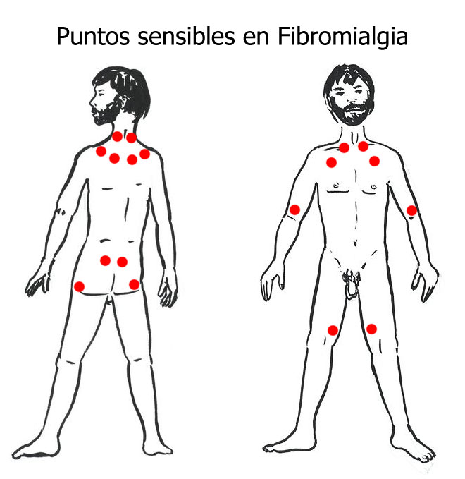 Tender Points in Fibromyalgia.